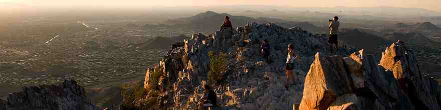 Squaw Peak, Phoenix, Arizona